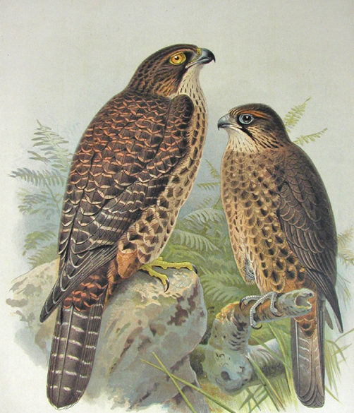 Falco novaeseelandiae, Kārearea or New Zealand Falcon, adult at left, young at right.